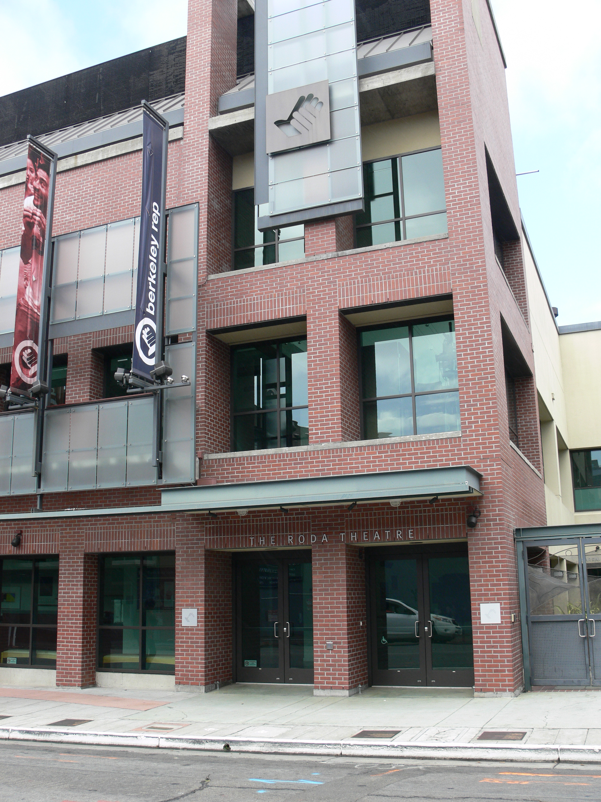 Roda Theatre (Berkeley Rep's 600-seat theatre), neighbouring Berkeley Repertory Theatre, Berkeley, California